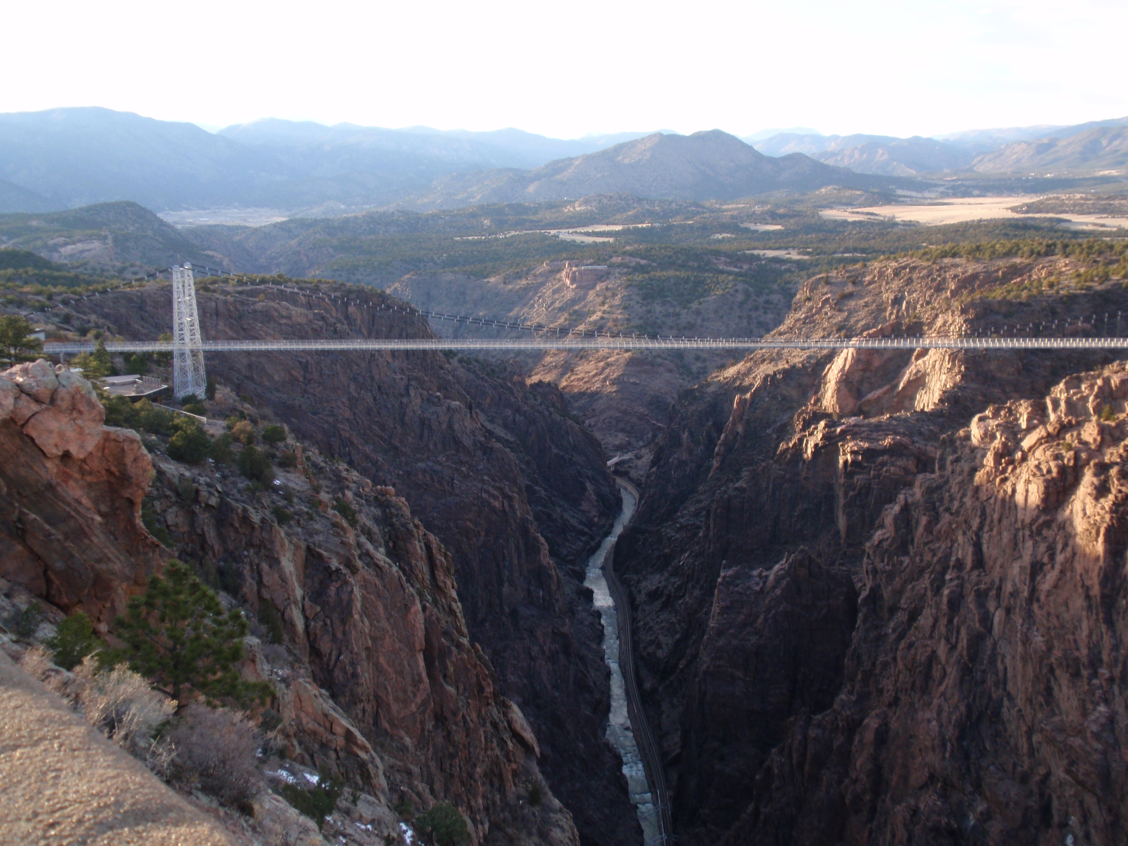 Mind the Gap, Royal Gorge Bridge